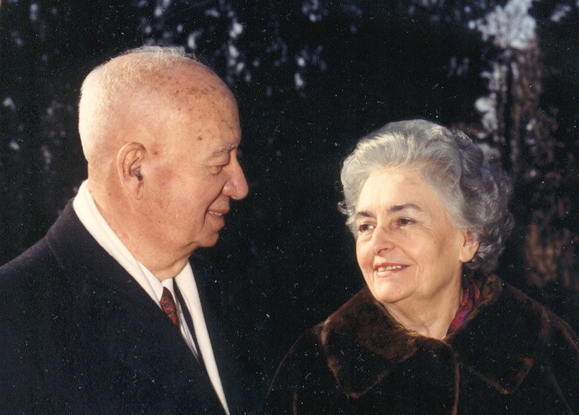 Paolo Emilio Taviani and his wife Vittoria Festa